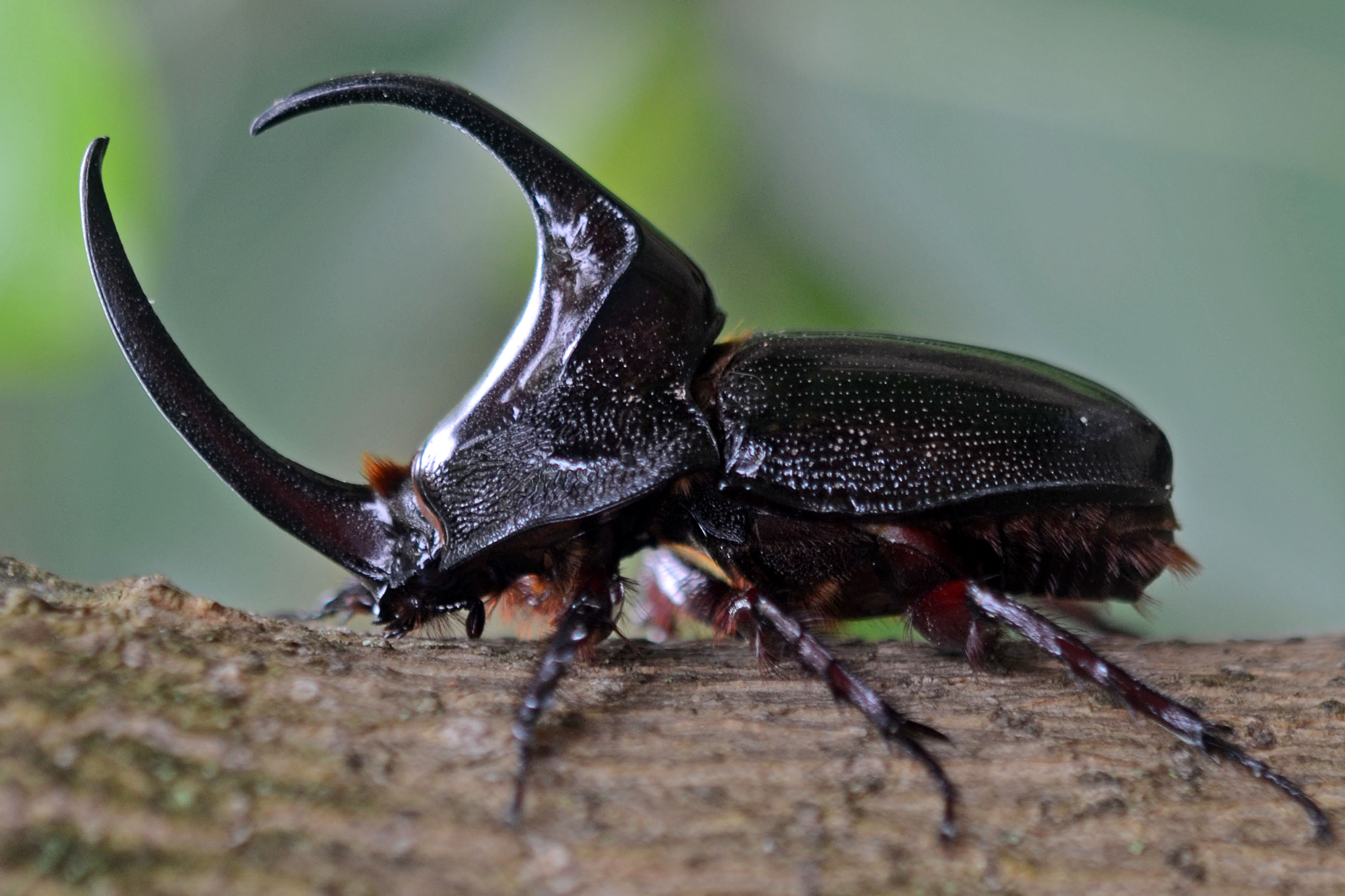 Male Rhinoceros beetle (Enema pan), Moyobamba, San Martín, Peru.